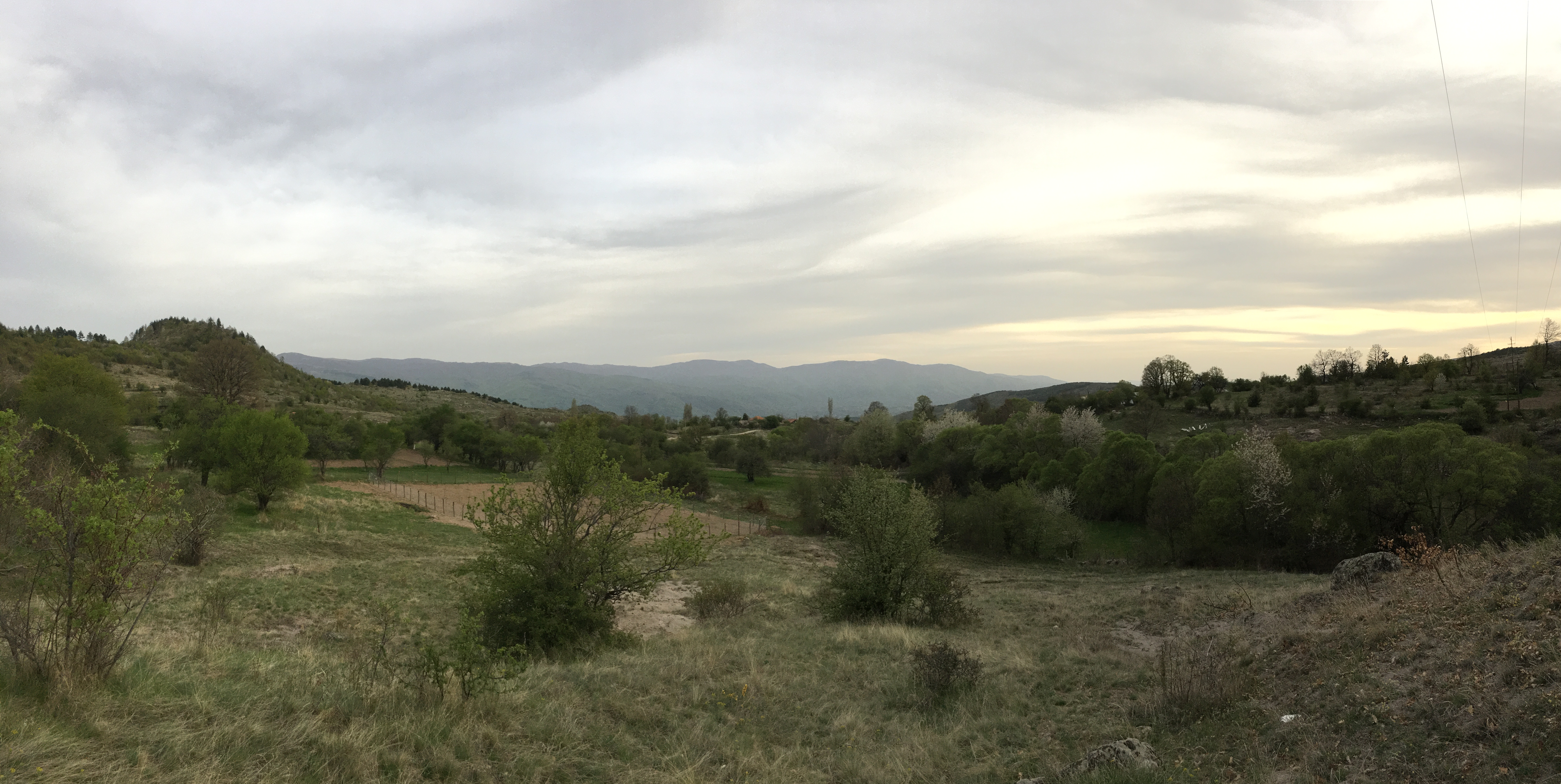 A panoramic view of Markovci, Petkovci and Gradaci mahalas of the village of Gradec